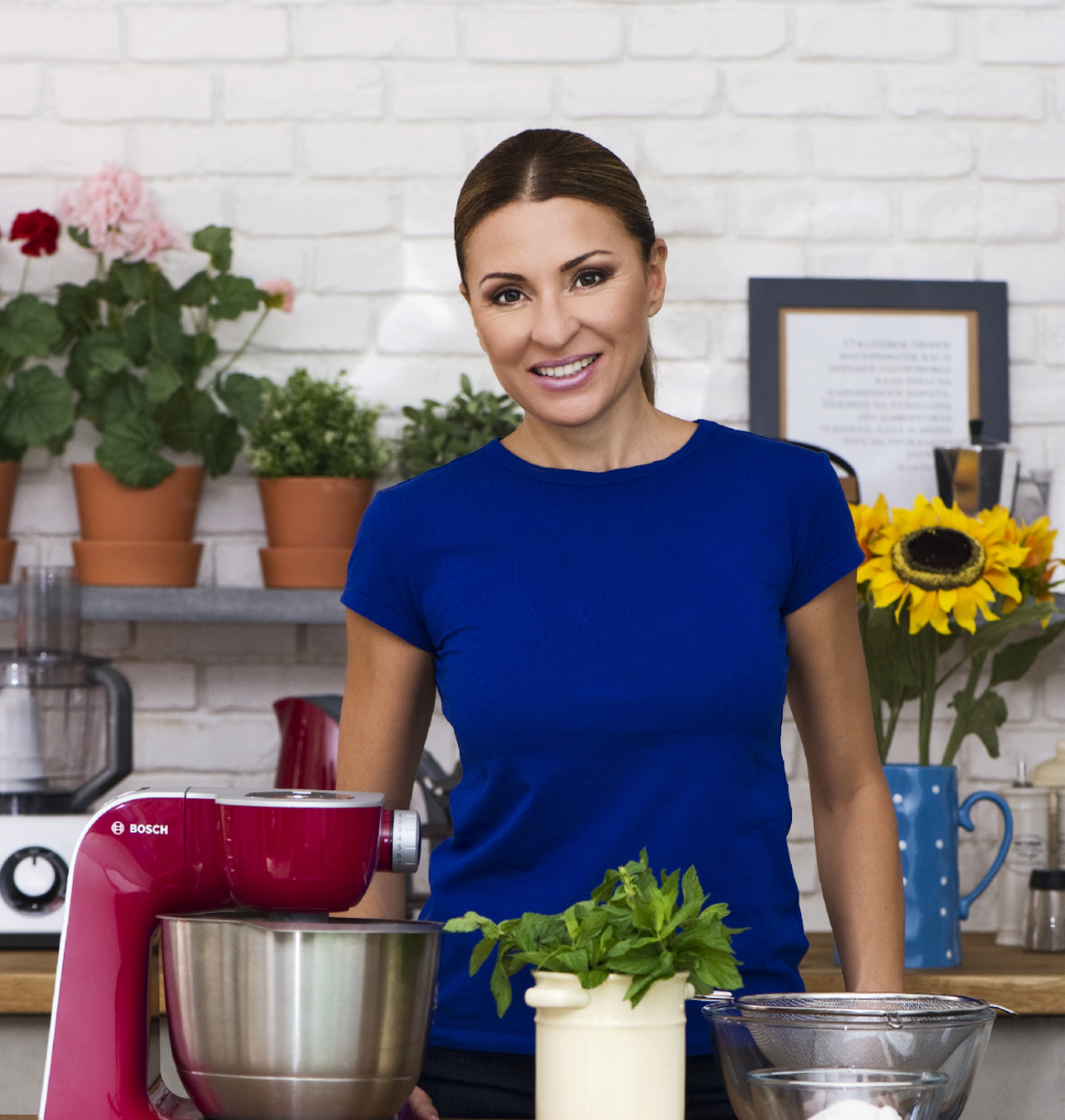 Athena in Studio Kitchen